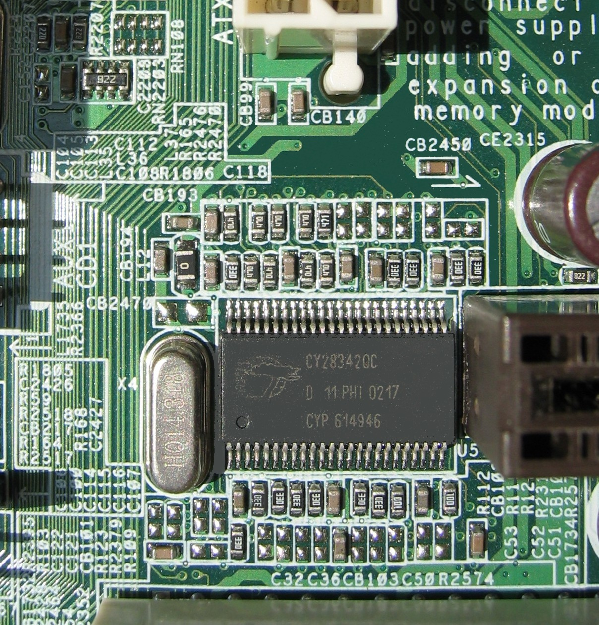 pc clockgenerator without capacitors